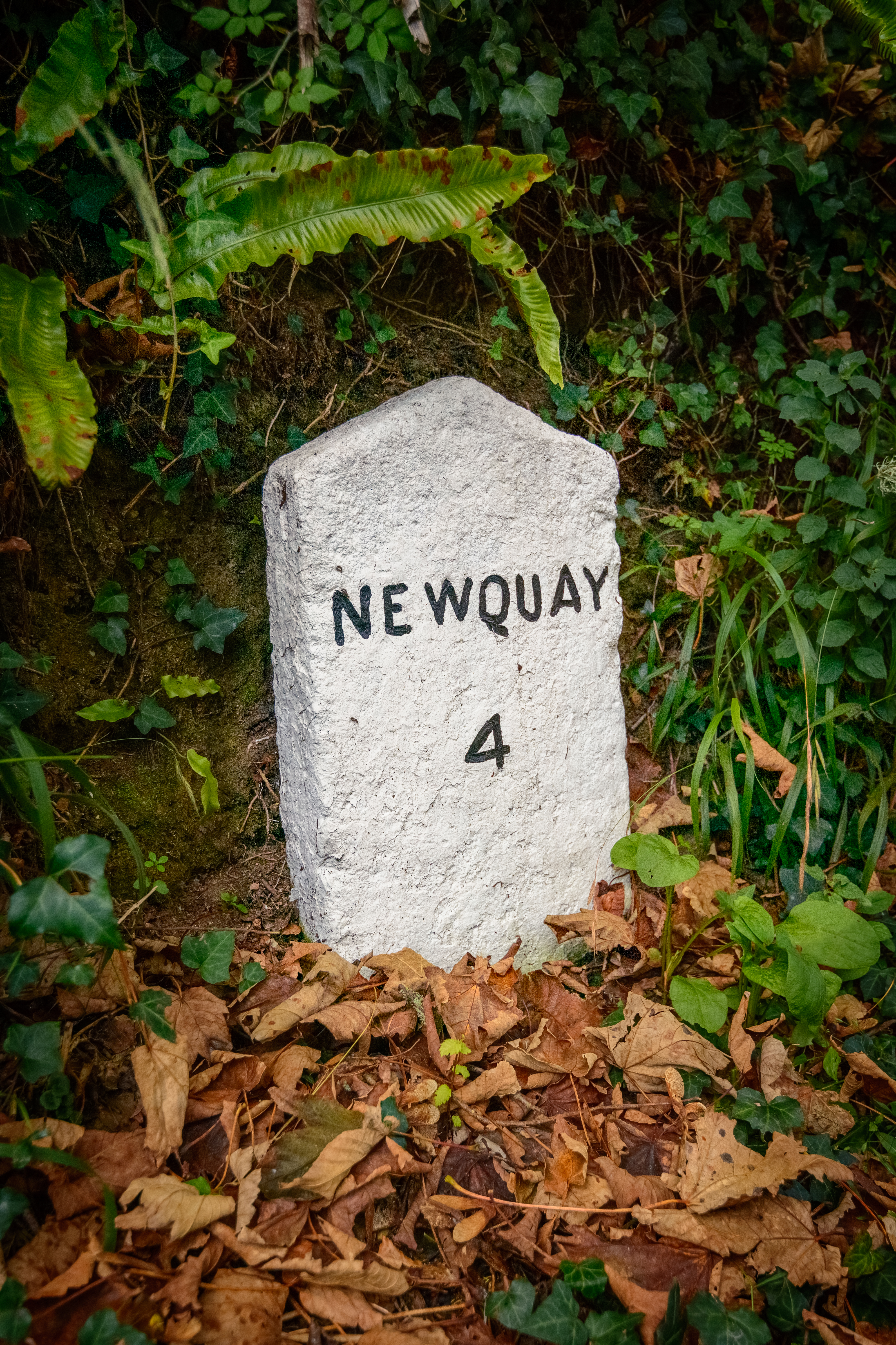 Milestone 325M South-East Of Kestle Mill Wikidata has entry Q26674396 with data related to this item. Inscribed: NEWQUAY 4